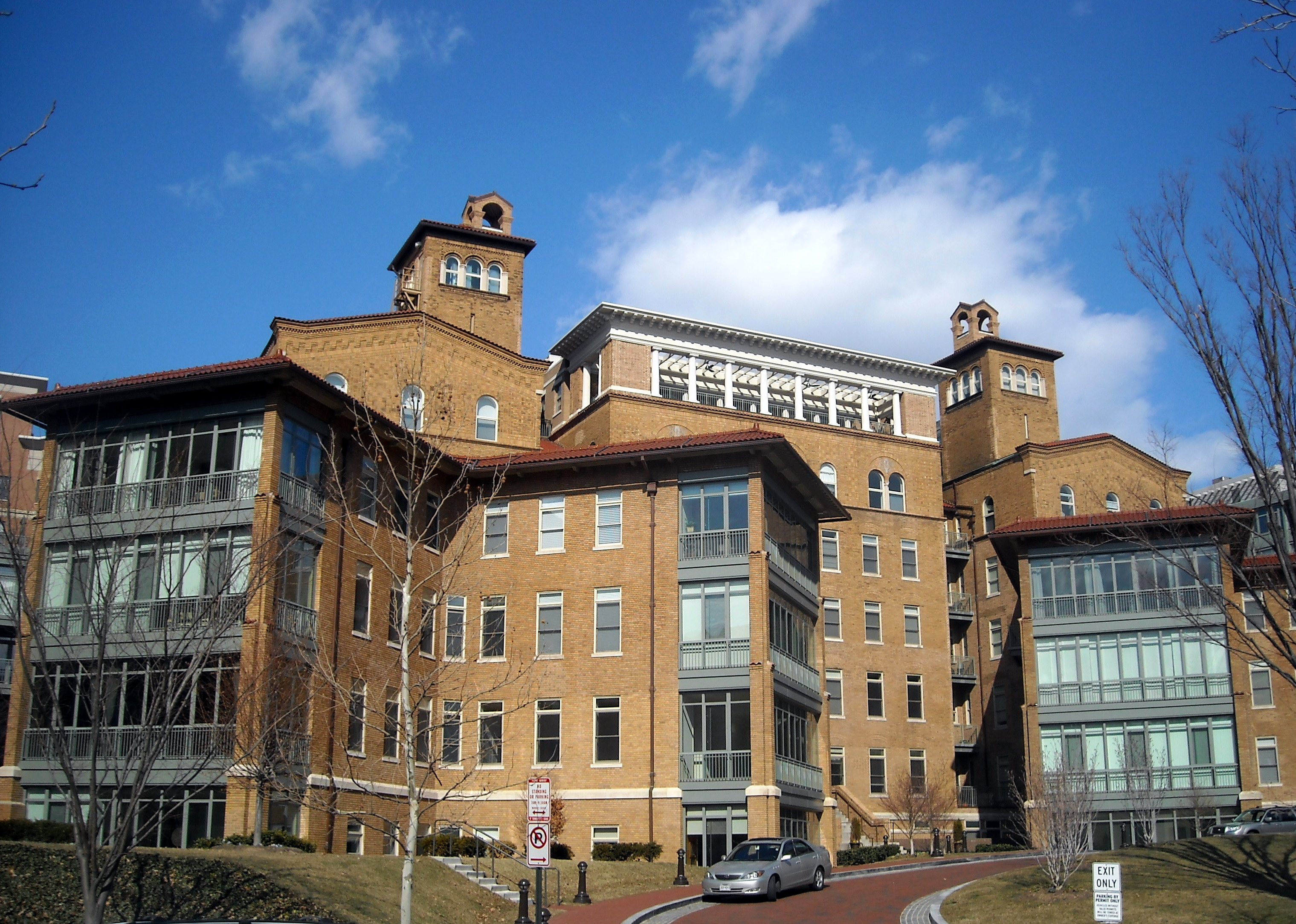 The former Columbia Hospital for Women located at 2425 L Street, NW in the West End neighborhood of Washington, D.C. The hospital was chartered by Congress in 1866 and closed in 2002. The Italianate building, designed by Nathan C. Wyeth in 1916, is now used for residential purposes.